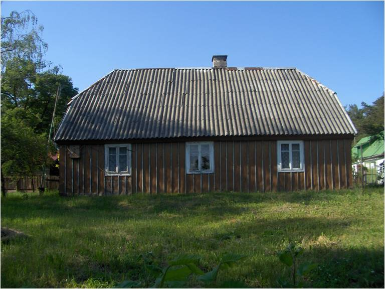 Dom Wawrzyńca